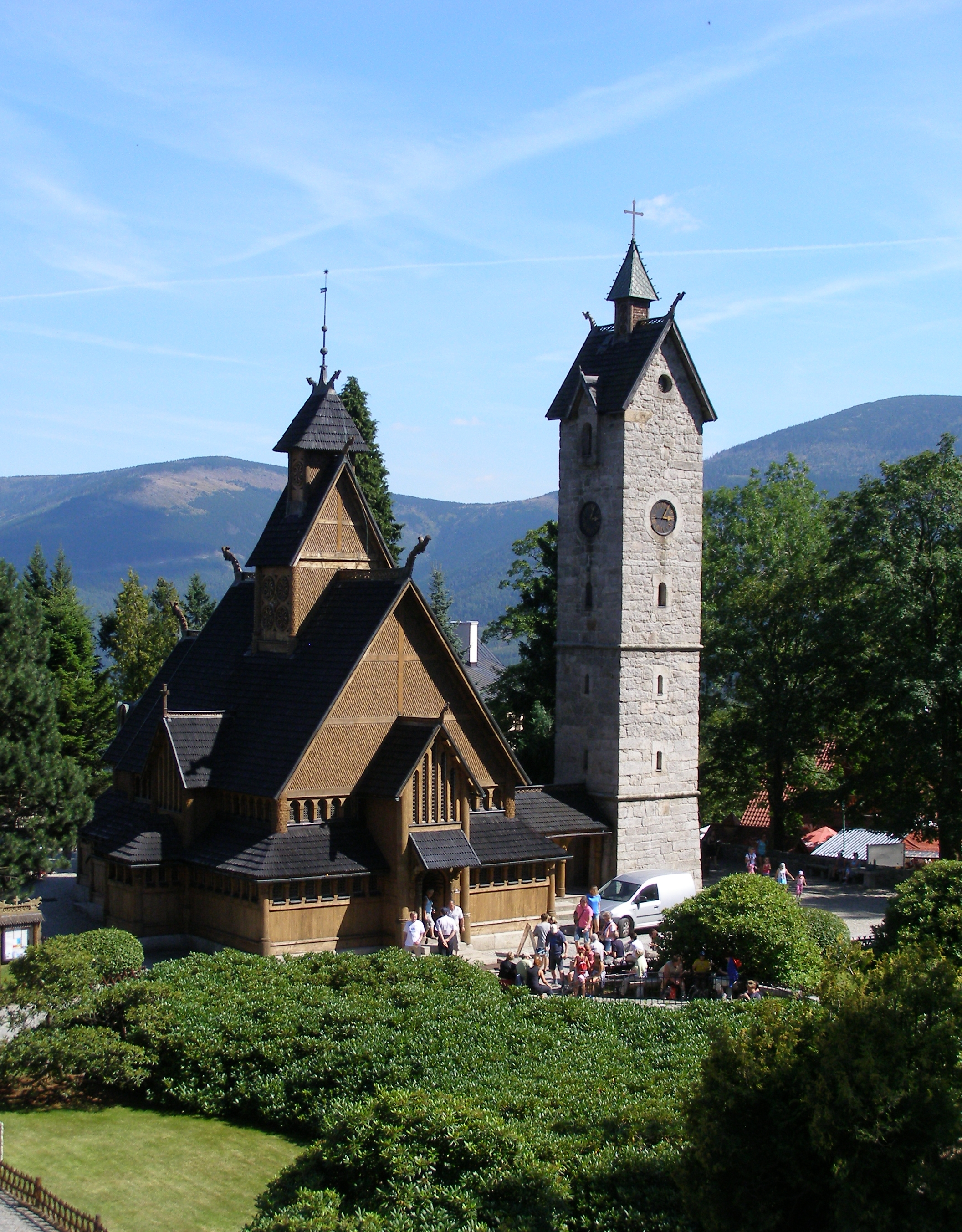 Karpacz - Wang church